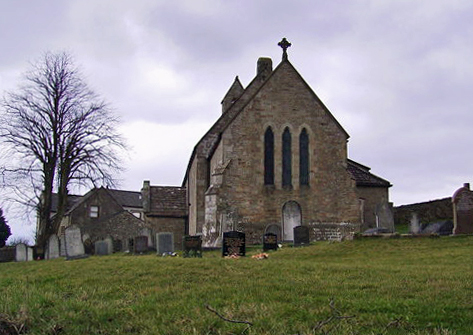 St Saviour's parish church, Aughton, Lancashire, seen from the east